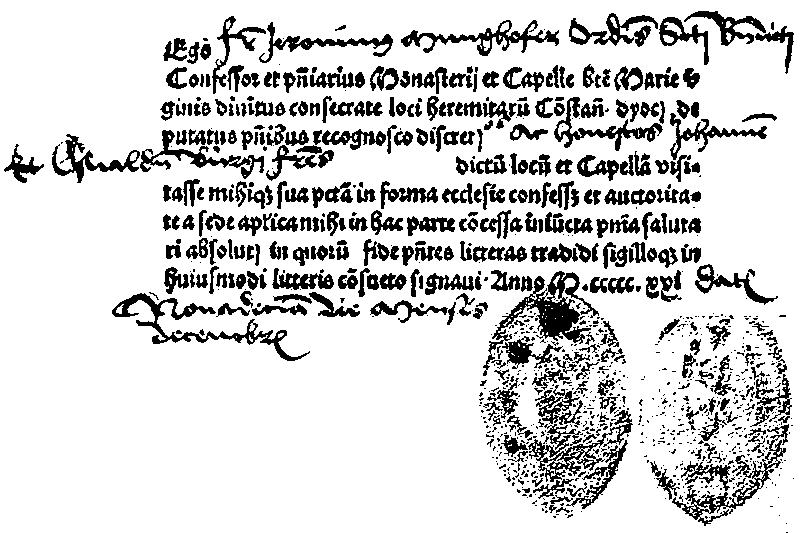 A Roman Catholic certificate of having gone to confession from the year 1521